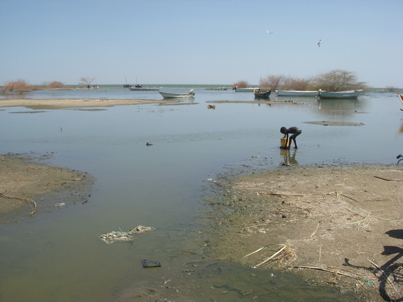 I have snapped the pix during our excursion